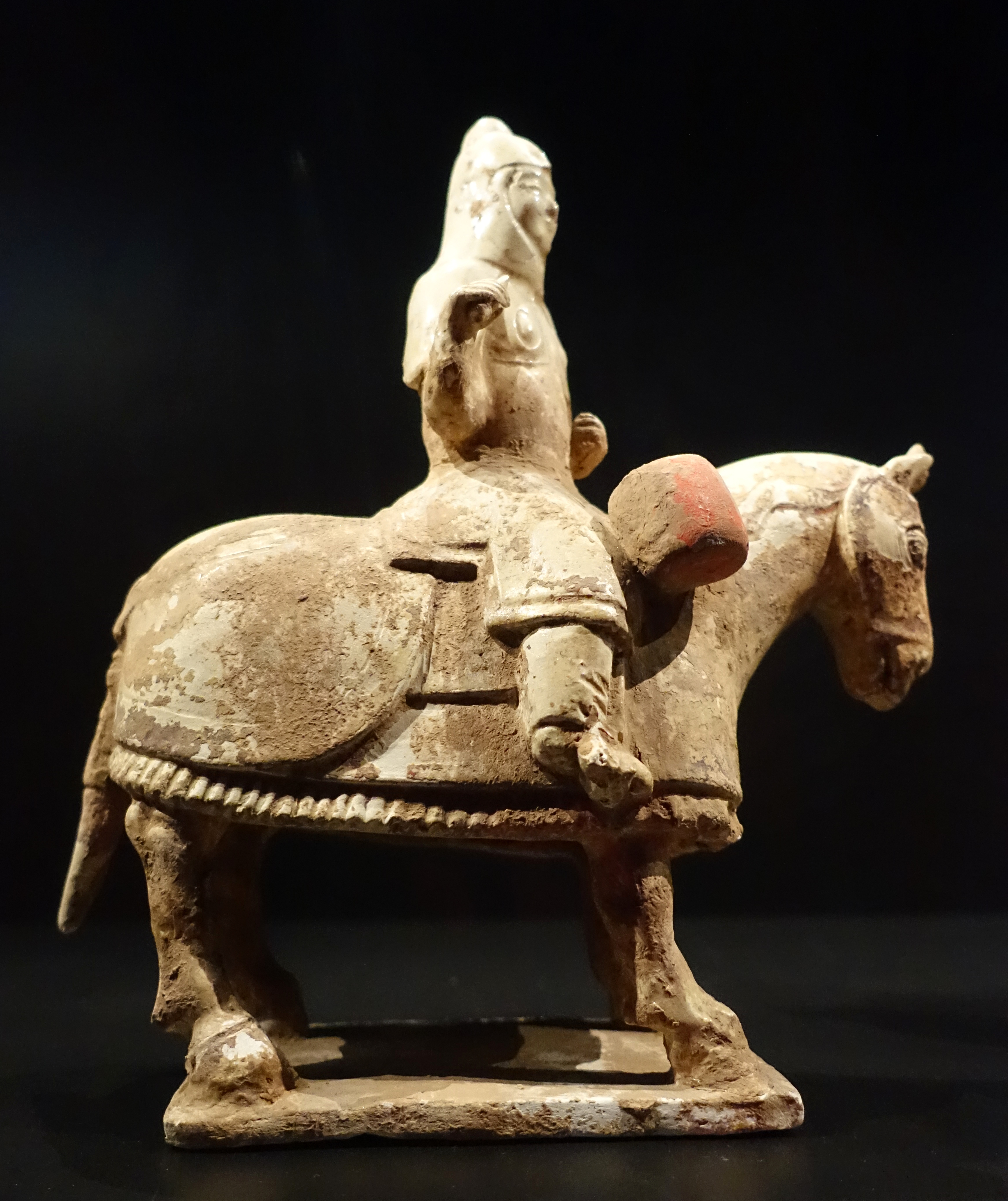 Exhibit in the Östasiatiska museet, Stockholm, Sweden. This artwork is old enough so that it is in the public domain.